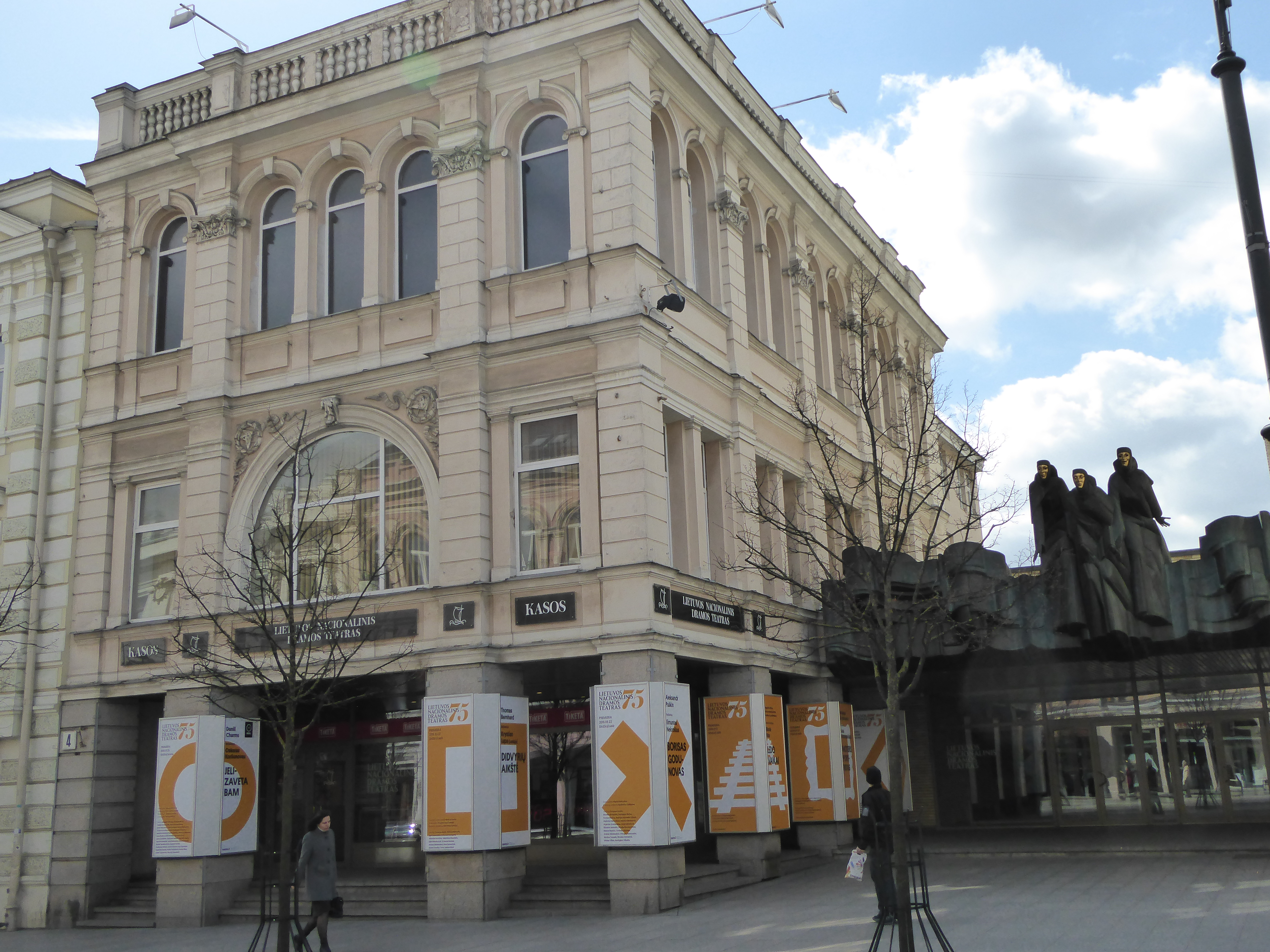 Lithuanian National Drama Theatre, Gediminas Avenue, Vilnius, Lithuania, April 2015